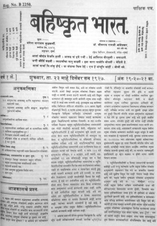 Cover page of Dr. Babasaheb Ambedkar's 'Bahishkrut Bharat' Fortnightly